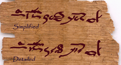 Comparison of simplified and complex hieratic font sets showing same text.